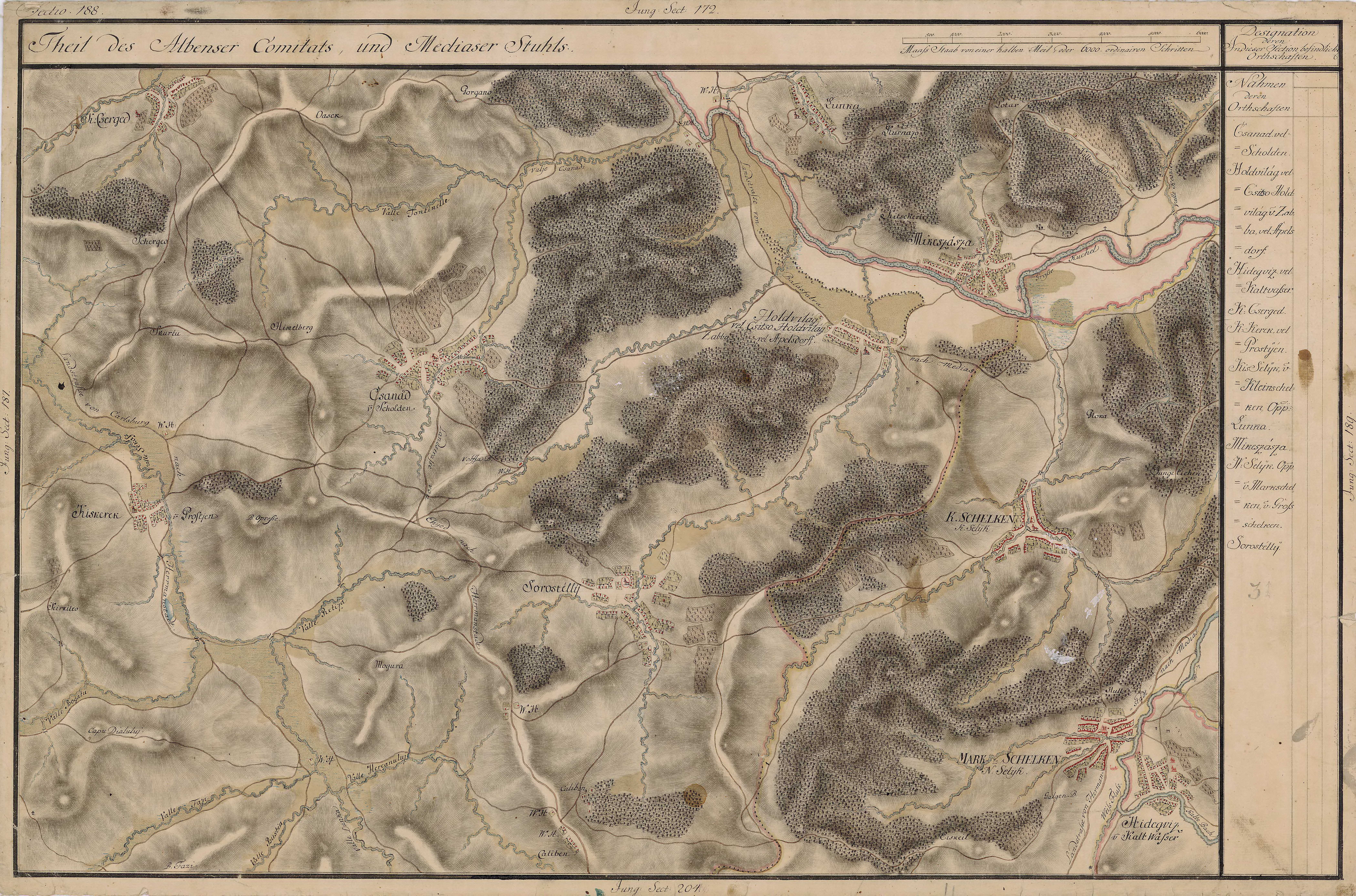 Grand Duchy of Transylvania, 1769-1773. Josephinische Landaufnahme pg.188